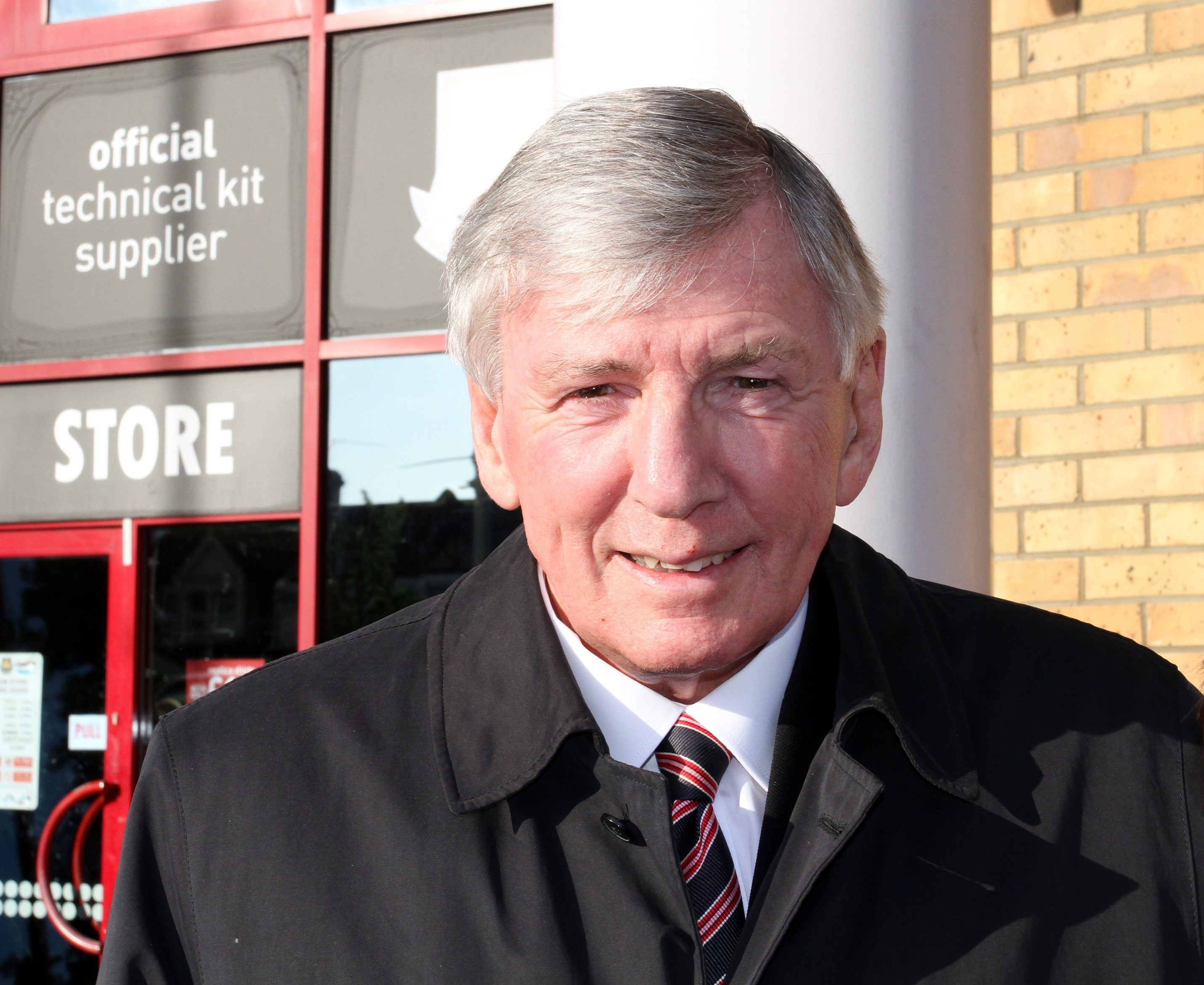 Martin Peters MBE, 1966 English Football World Cup winner photographed at the Boleyn Ground, Upton Park on 16May2015